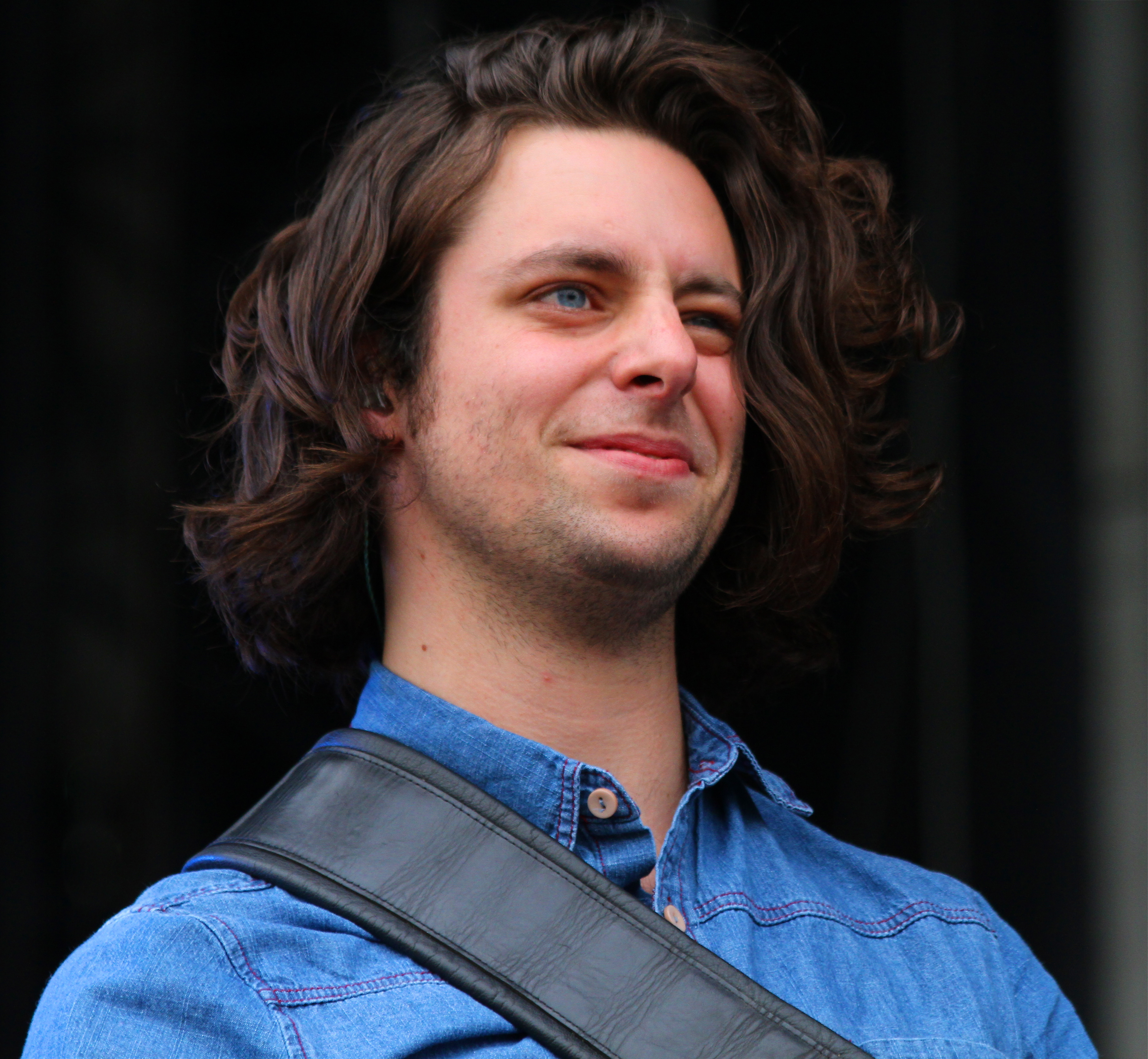 Posted via email from Globalite Magazine